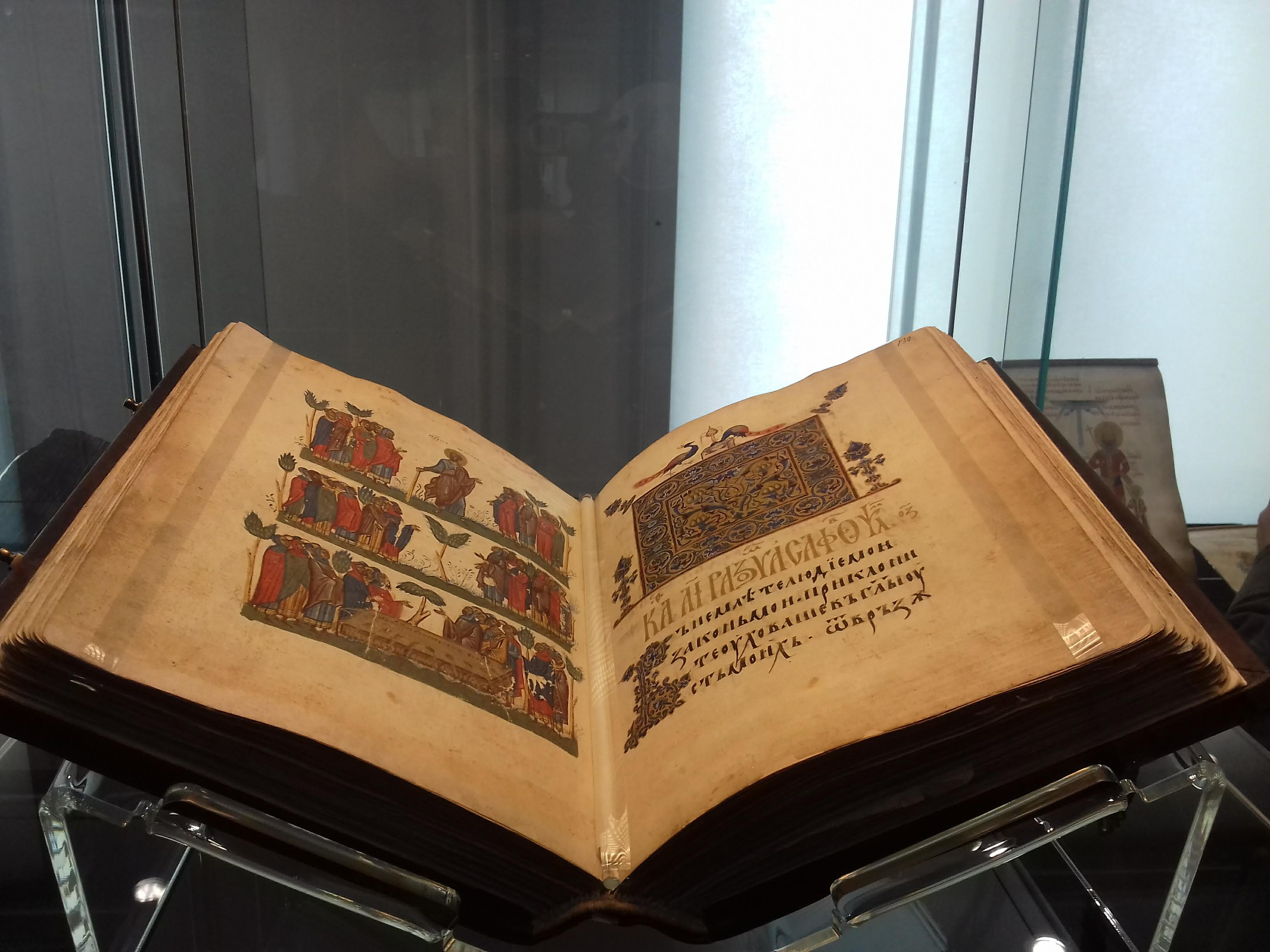 Tomic Psalter, National Archaeological Museum, Bulgaria